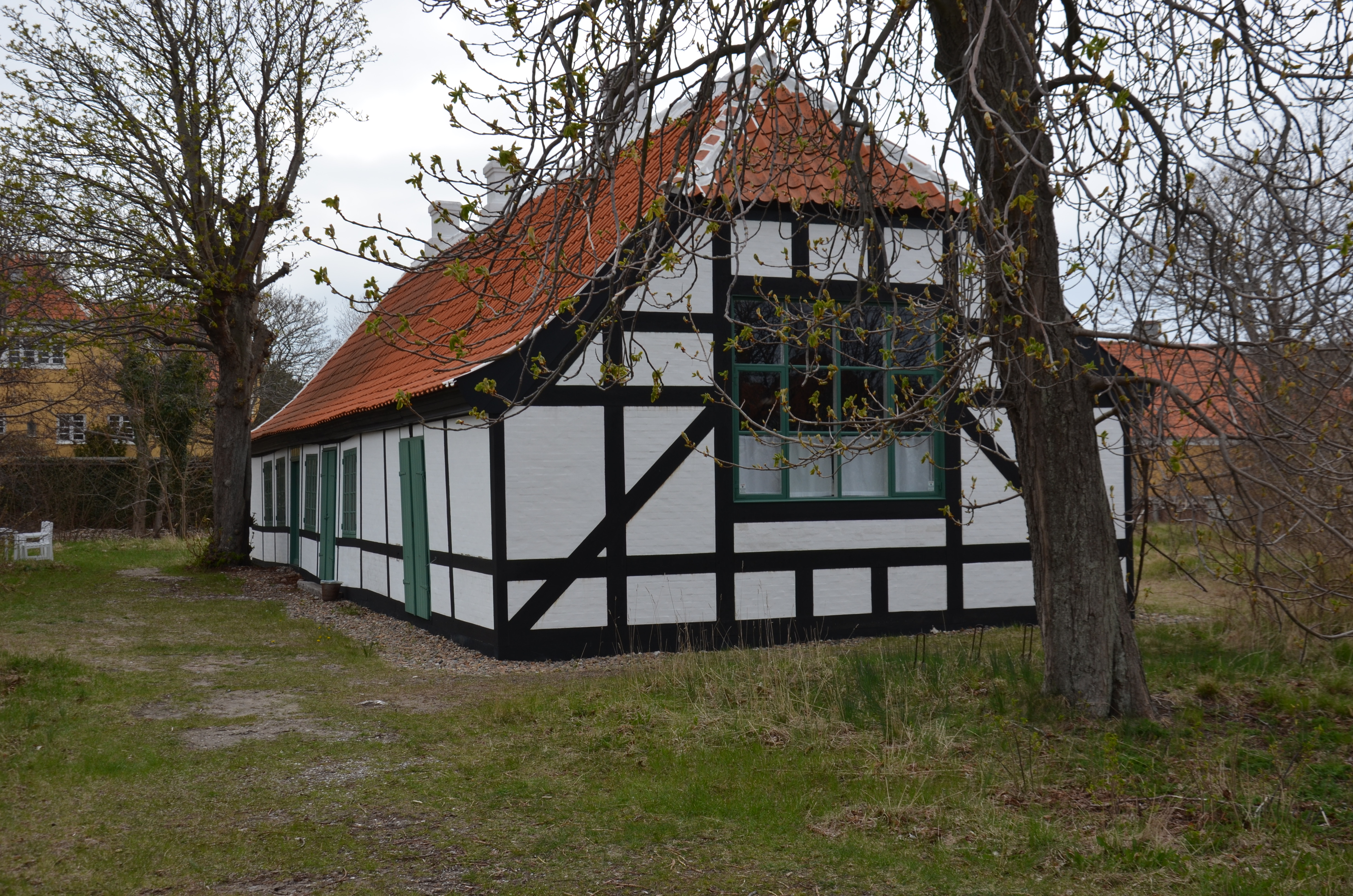 Holger Drachmann's cottage in Skagen